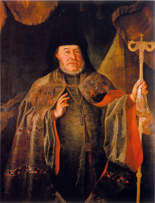 Unknown painter, Patriarch Arsenije IV Jovanović Šakabenta, 1744, Museum of the Serbian Orthodox Church, Belgrade[1] ↑ Zbornik Narodnog muzeja - XVIII-2 Istorija umetnosti, 2007.[1], Belgrade: Narodni Muzej, (Please provide a date or year), page 199